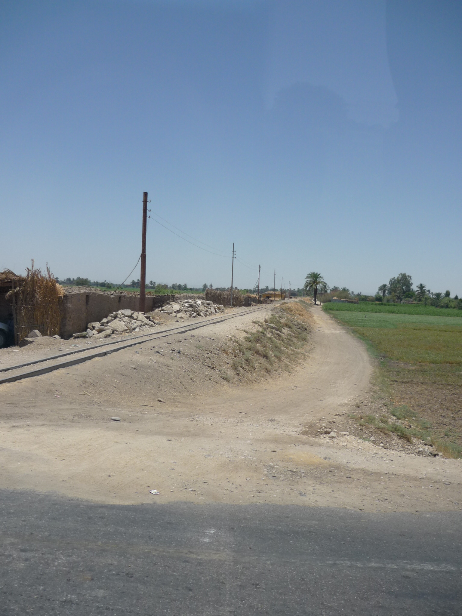 Railroad used for sugarcan, Louxor west bank of Nile, Egypt